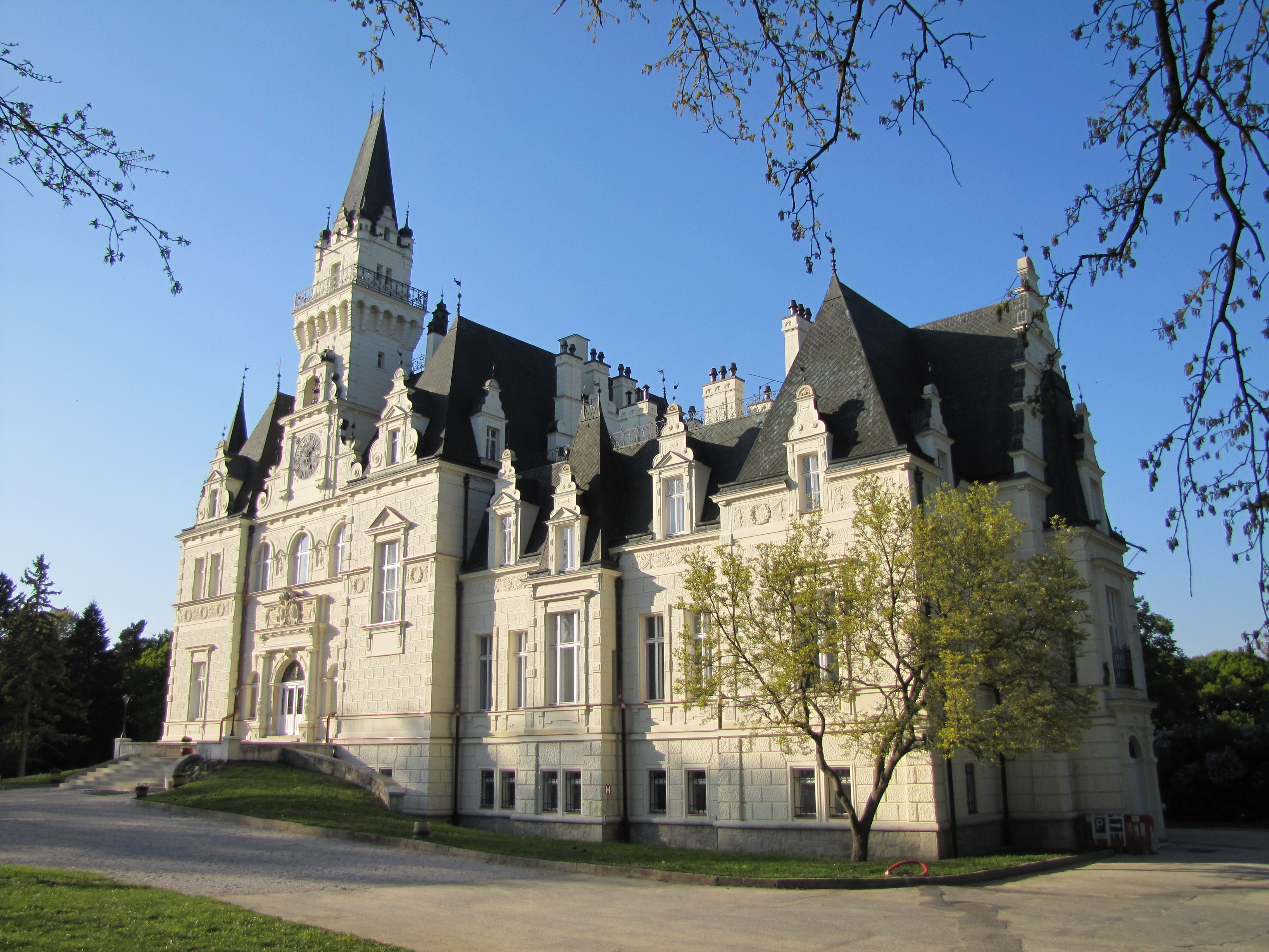 Budmerice castle, Slovakia.